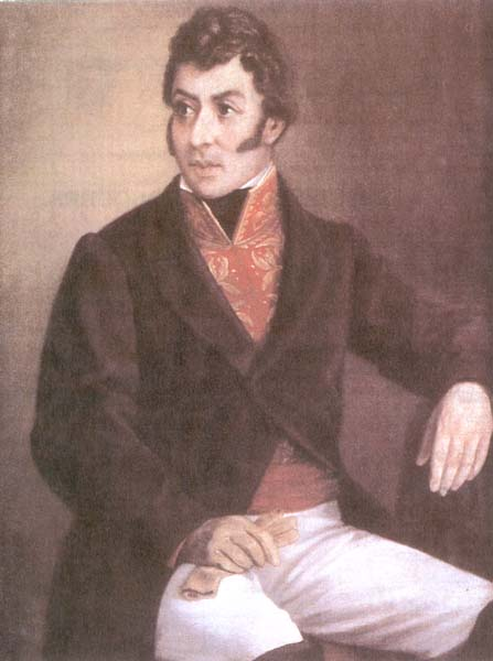 Painting of Antonio Nariño (1765-1824)